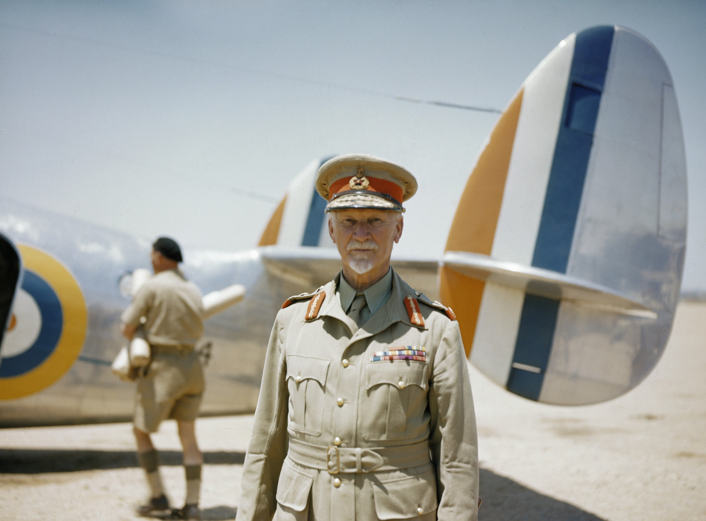 Field Marshal Jan Smuts, Prime Minister of the Union of South Africa, standing in front of a Lockheed Lodestar aircraft of No. 234 Squadron SAAF. Field Marshal Jan Smuts standing in front of the aircraft in which he made his flying visits. It was an ex-South African Airways Lockheed Lodestar, which retained its natural metal finish when it became No 234 of the South African Air Force. Comment : There was no 234 Squadron SAAF ??